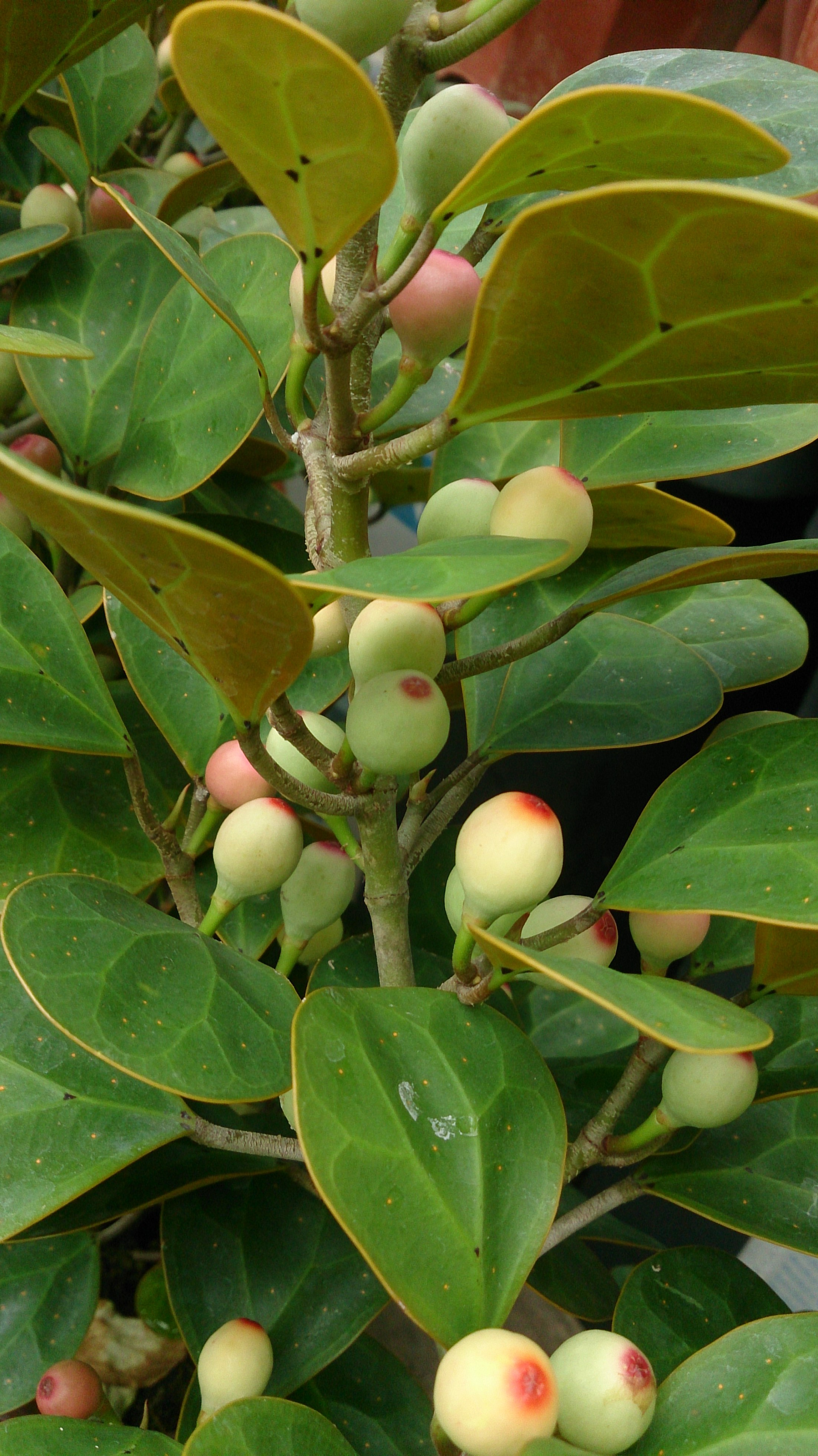 Ficus deltoidea. Common name: Mistletoe Fig.